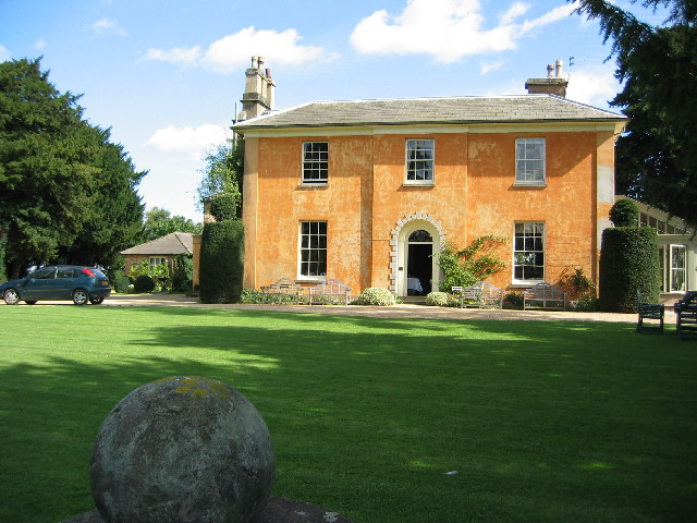 Langar Hall, Nottinghamshire. A small hotel and high class restaurant on the edge of the village of Langar. for more information